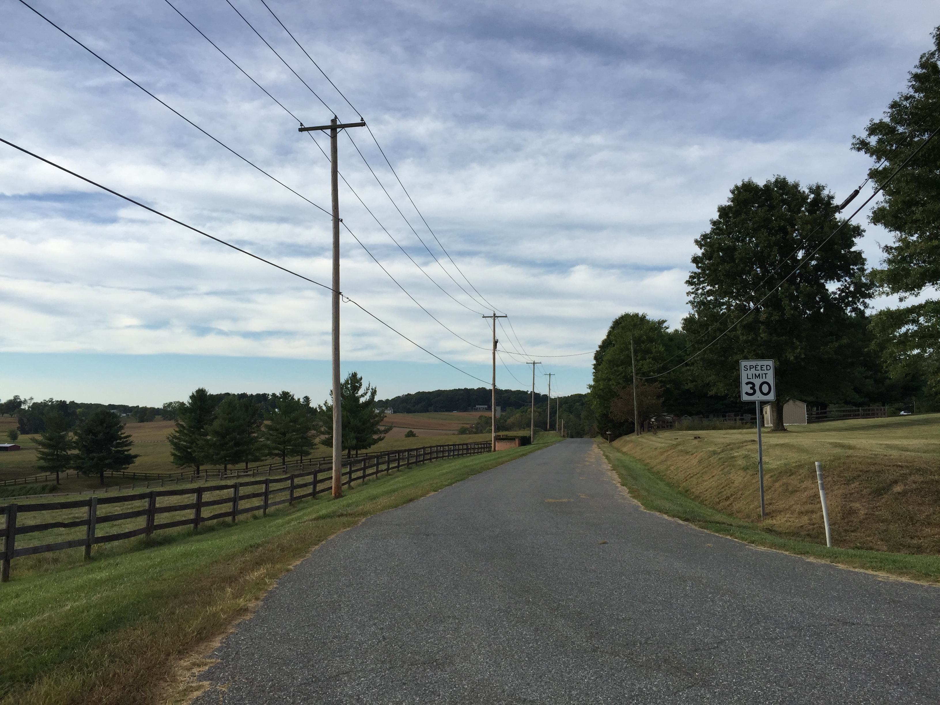 View north at the south end of Maryland State Route 874 (Drummine Road) just north of Maryland State Route 75 (Green Valley Road) in Central Chapel, Frederick County, Maryland